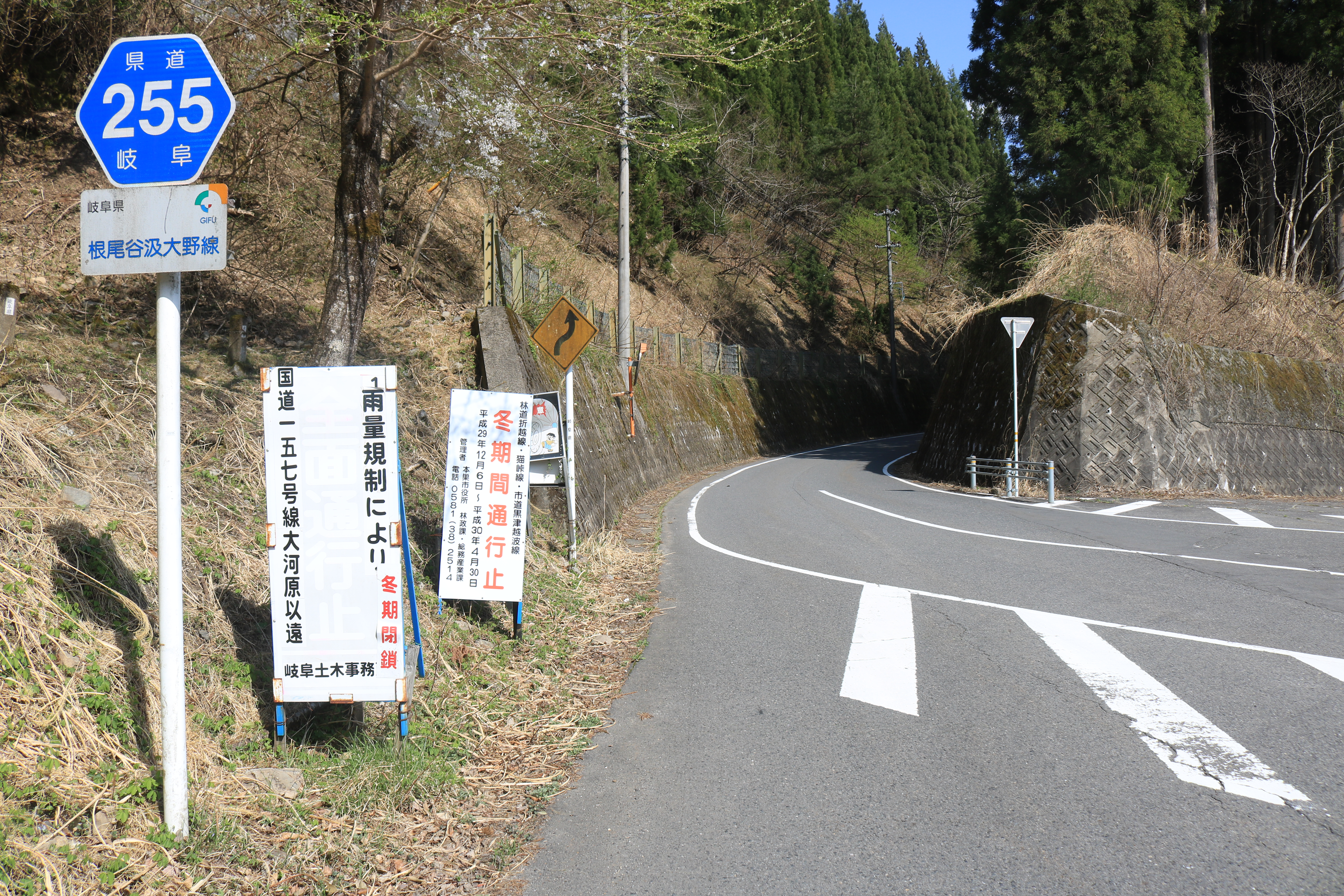 Gifu Prefectural Road Route 255 (Neotanigumi-Ōno Line) in Neohigashiitaya, Motosu, Gifu Prefecture, Japan.